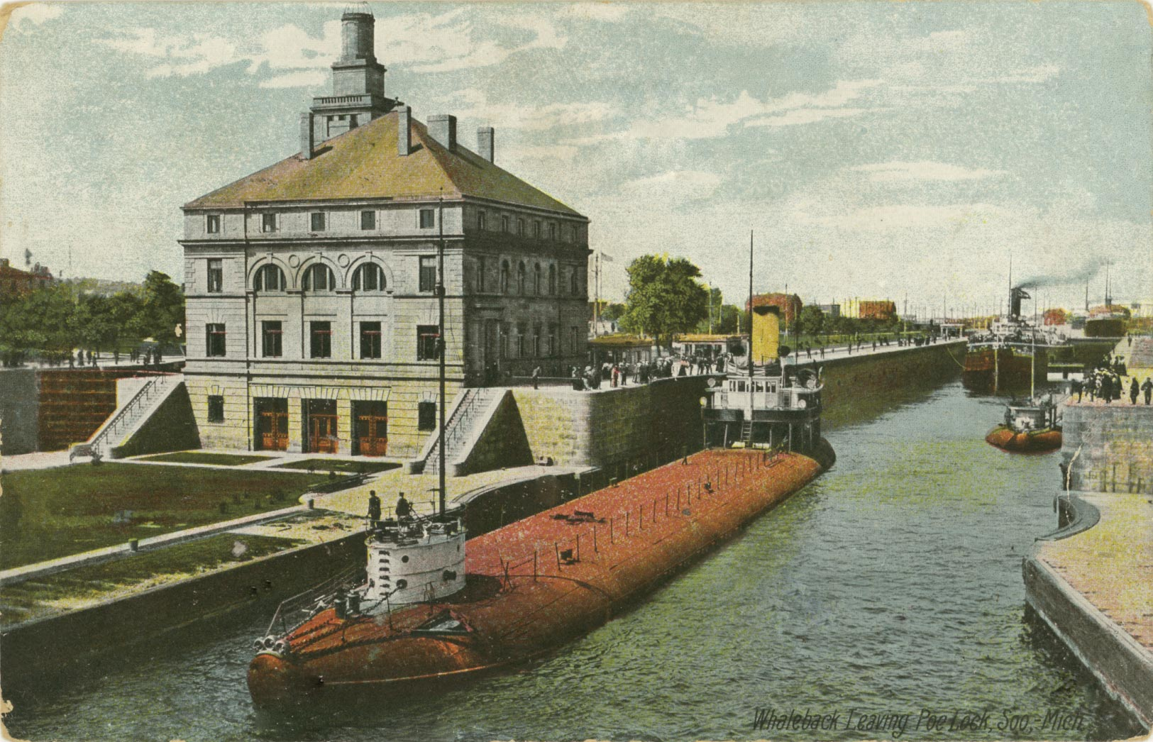 A postcard of a whaleback freighter, tentatively identified as the John B. Trevor, exiting the Poe lock of the Sault Sainte Marie Canal. Behind it is a whaleback barge and another freighter. Hand-tinted monochrome photograph.